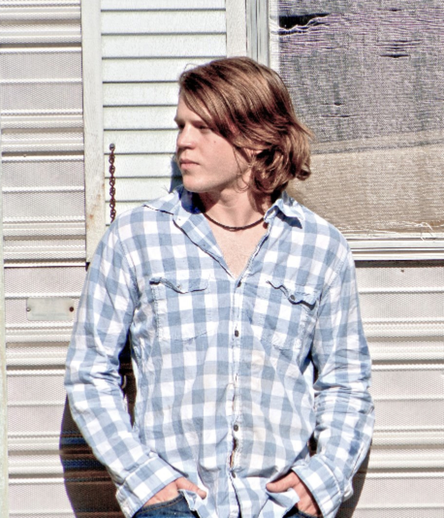 Carter Beckworth, Austin-based singer-songwriter